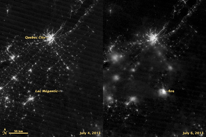 Early in the morning on July 6, 2013, a train carrying crude oil derailed in Lac-Mégantic, Quebec. The resulting crash and series of explosions killed 47 people, destroyed 40 homes, and forced 2,000 people to evacuate the town. The fire was visible to the Visible Infrared Imaging Radiometer Suite (VIIRS) on the Suomi NPP satellite. The image on the right was acquired at 6:21 GMT (2:21 a.m. local time) on July 6 by the instrument’s “day-night band,” which detects light in a range of wavelengths from green to near-infrared and uses filtering techniques to observe signals such as city lights, auroras, fires, and reflected moonlight. The image on the left, shown for comparison, was acquired by the same instrument on July 4, before the derailment. Light sources are not as crisp in the July 6 image because of cloud cover.